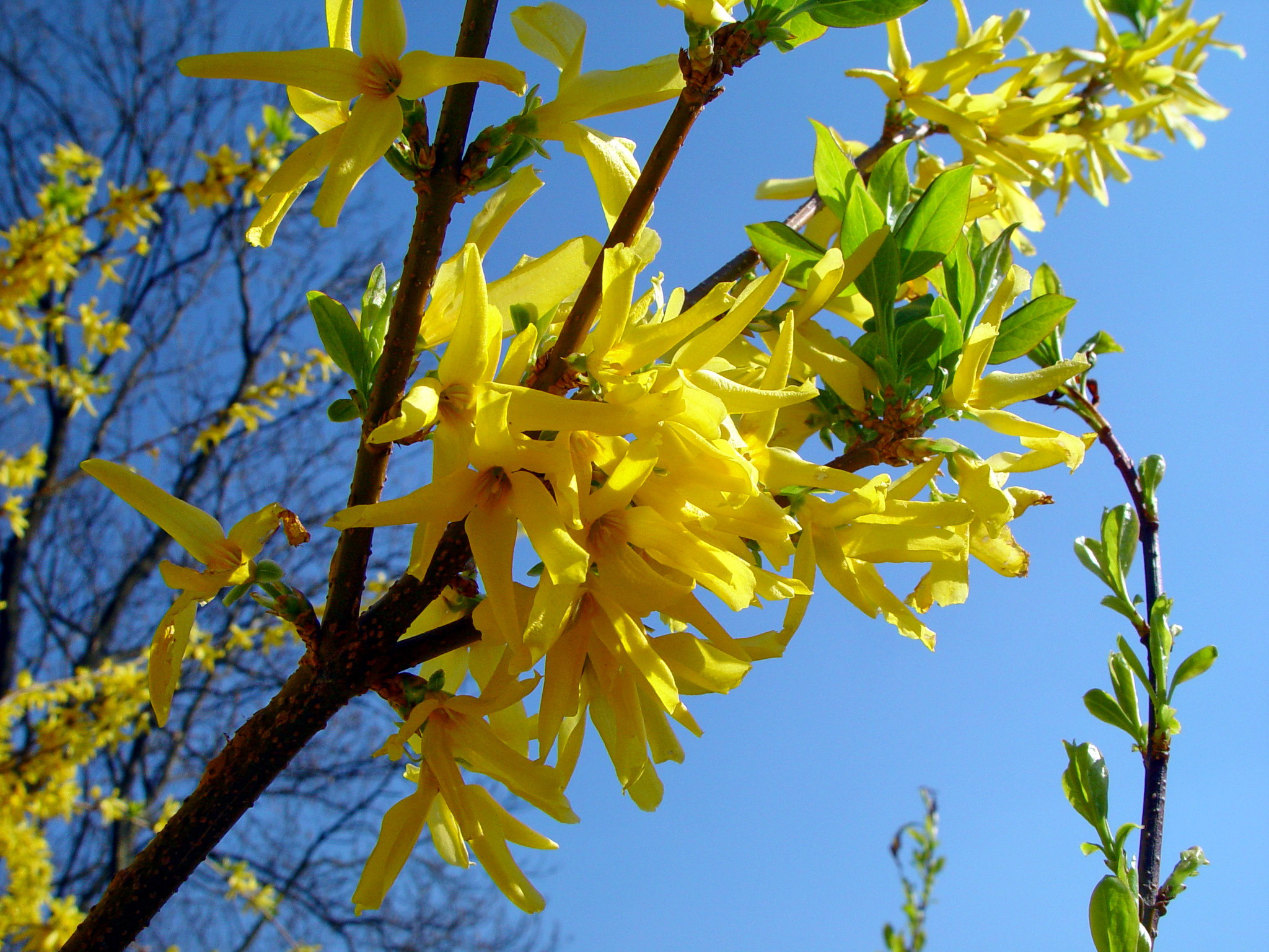 Forsythia x intermedia Image of some Forsythia flowers in Ticino taken by me in Spring 2002.